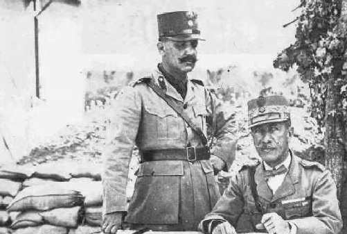 Lieutenant-general Emmanuel Zymbrakakis in an 1918 photo in the Macedonian front (World War I)